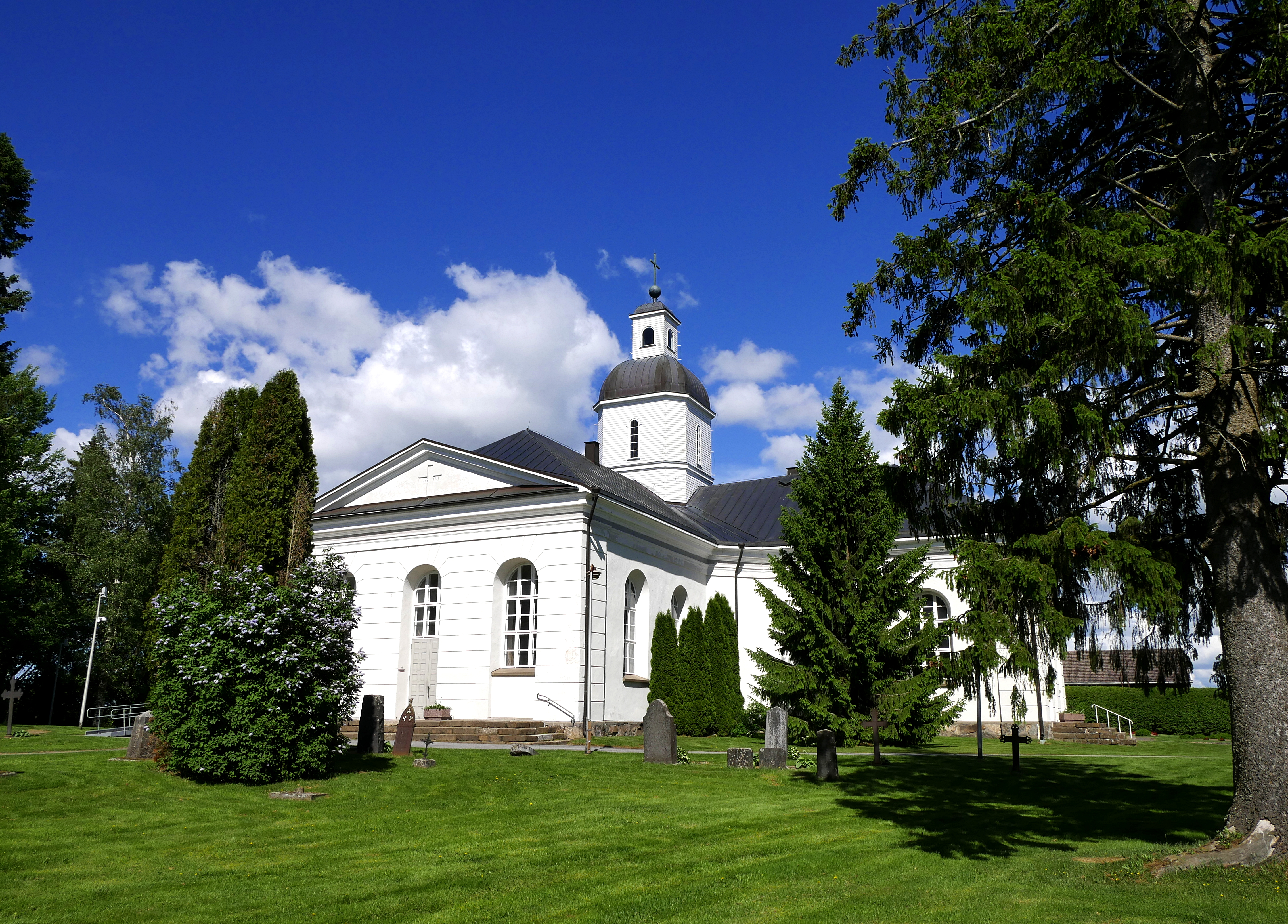 Vähäkyrö Church.